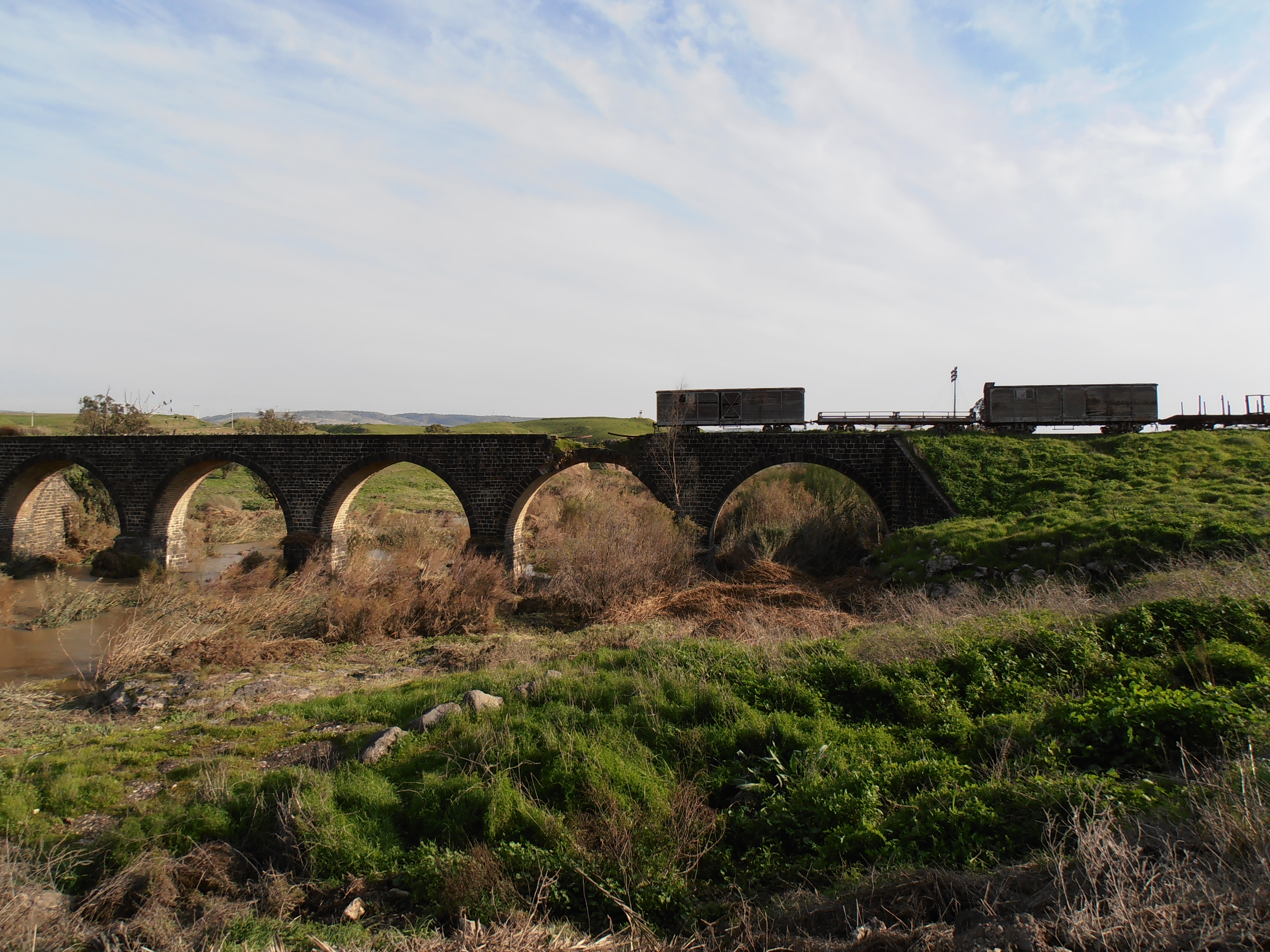 Geography of Israel